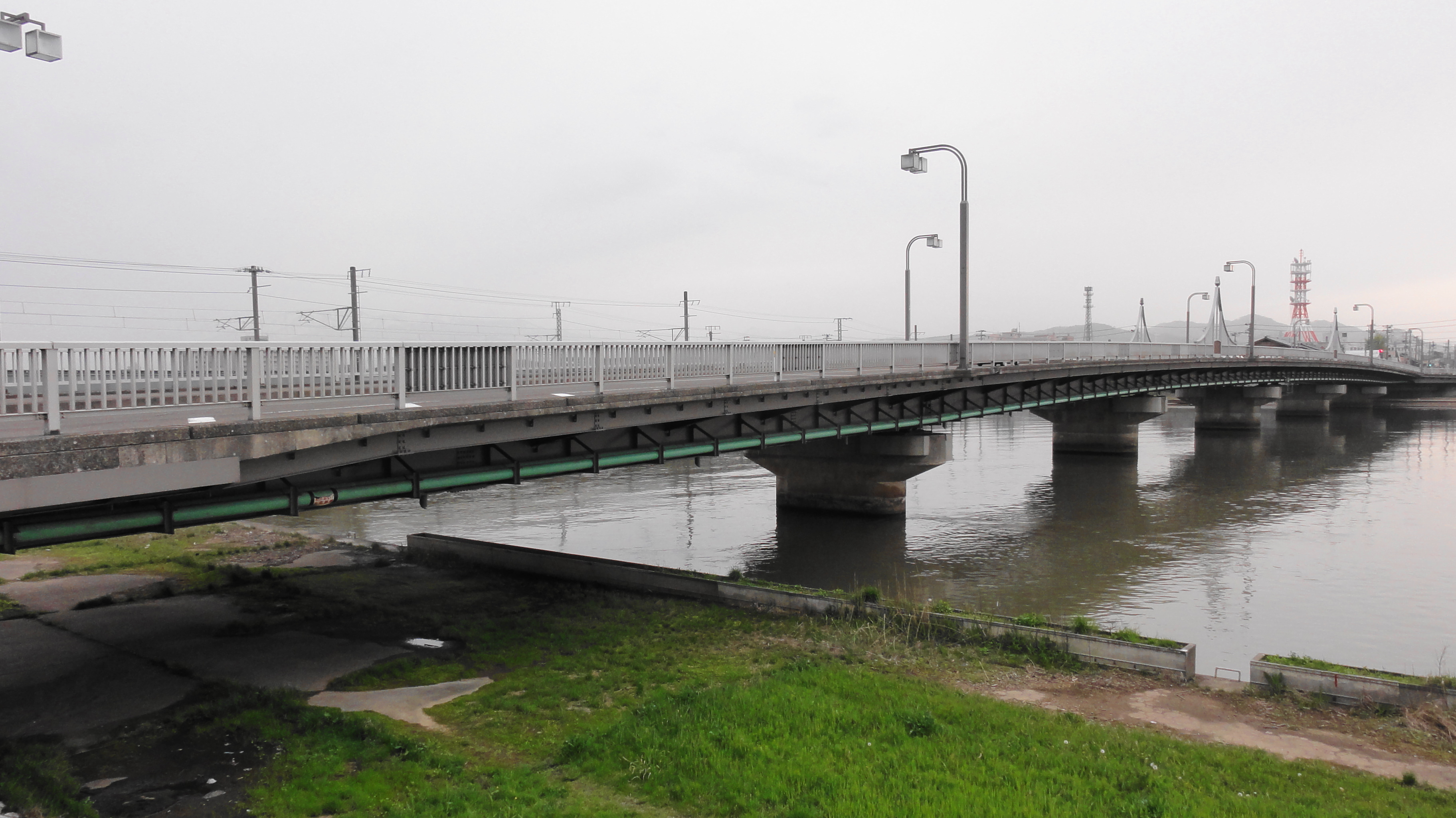 Naoetsu-bashi bridge,Niigata Pref., Japan